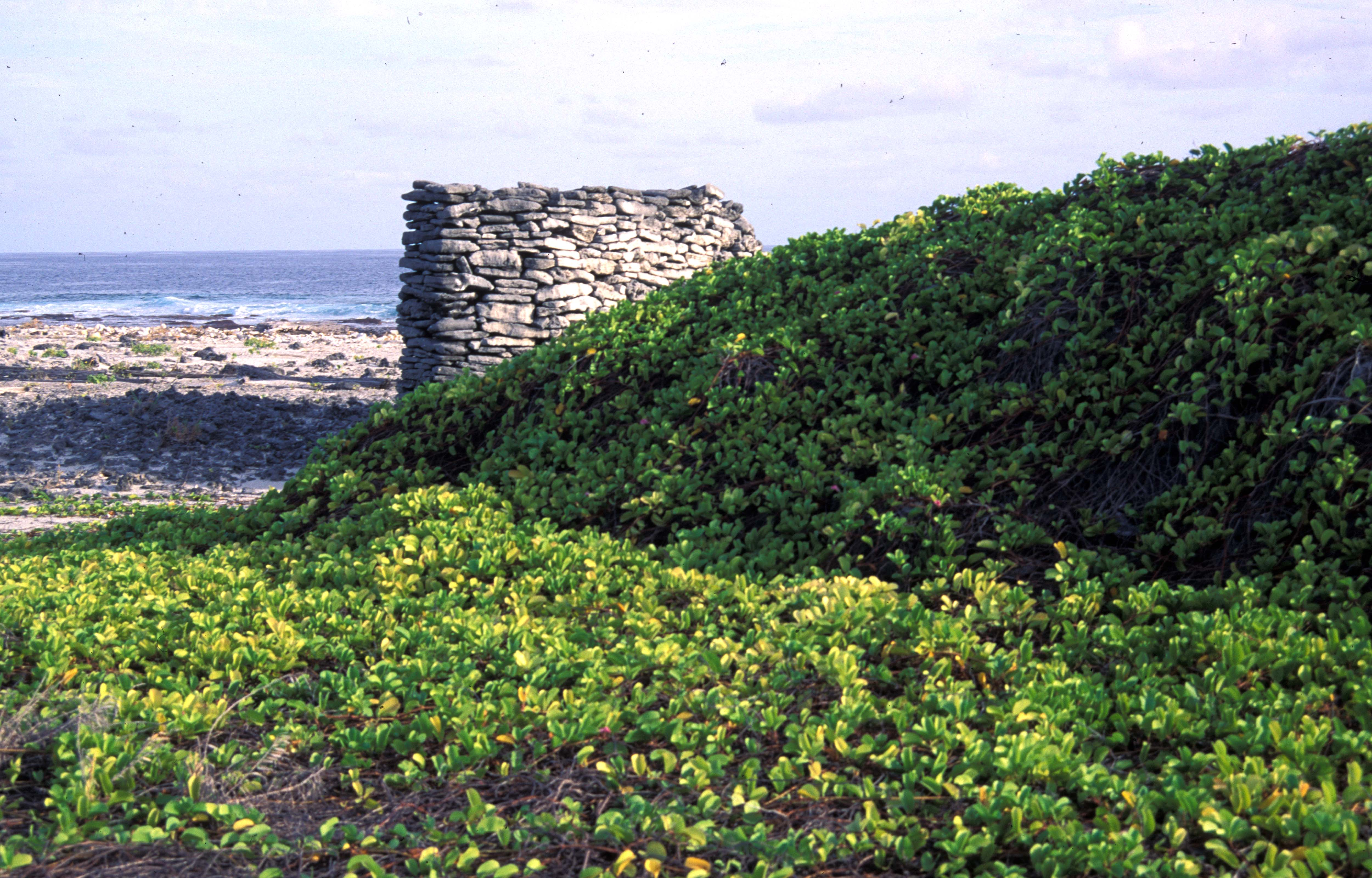 Ruined wall, overgrown with Pohuehue (Ipomoea pes-caprae) on Starbuck Island, Line Islands, Kiribati.